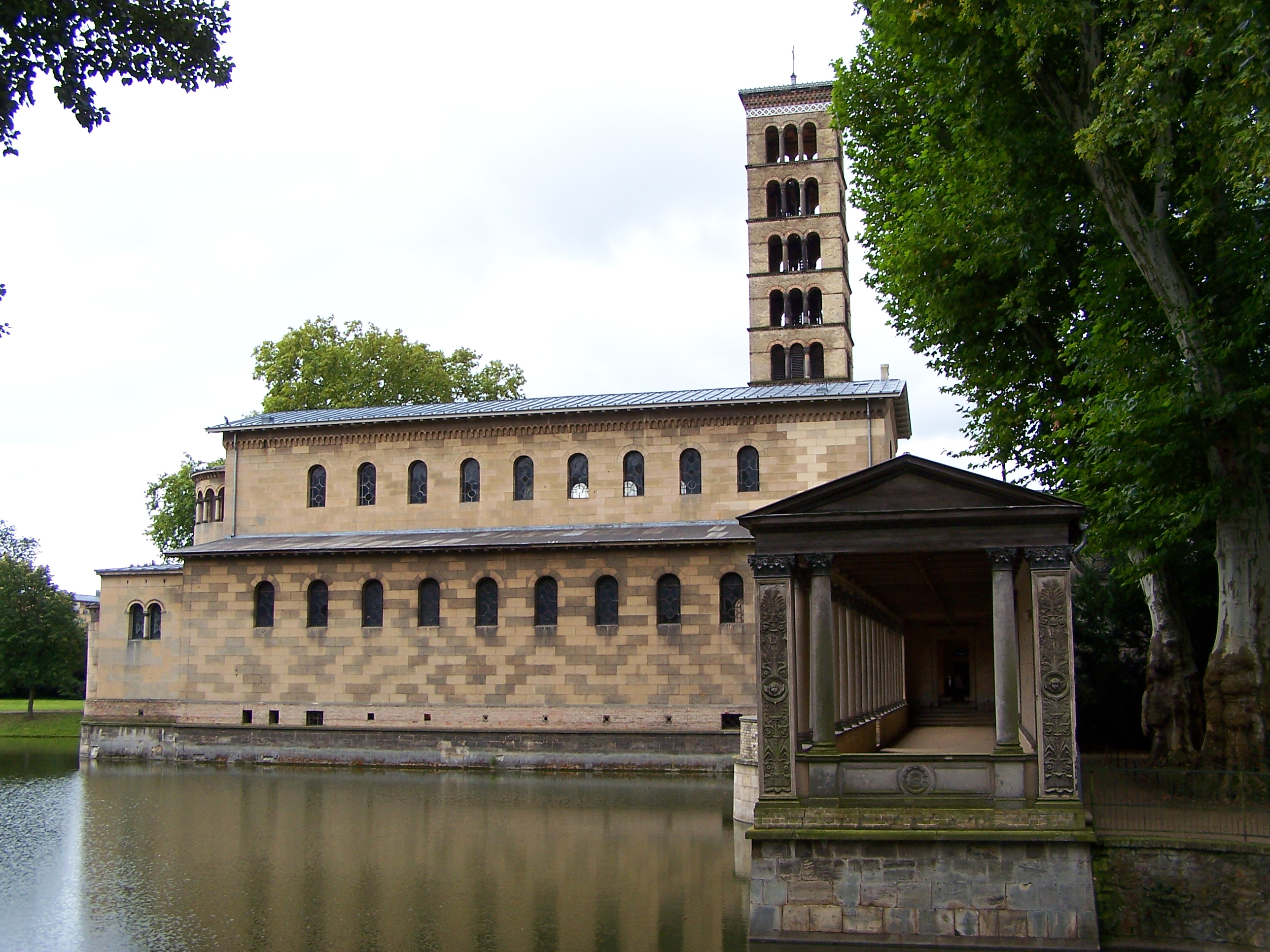 Church in Sanssouci park (Potsdam, Germany).